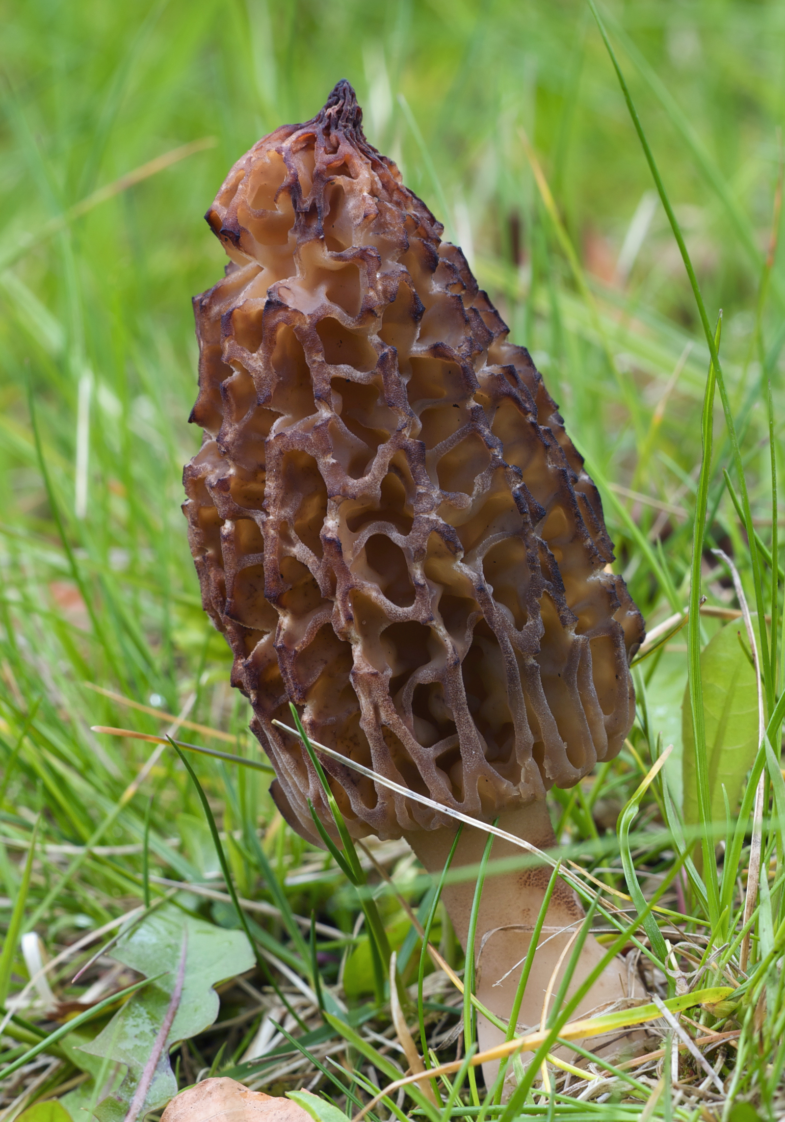 Black Morel (Morchella conica), Dresden, Germany.